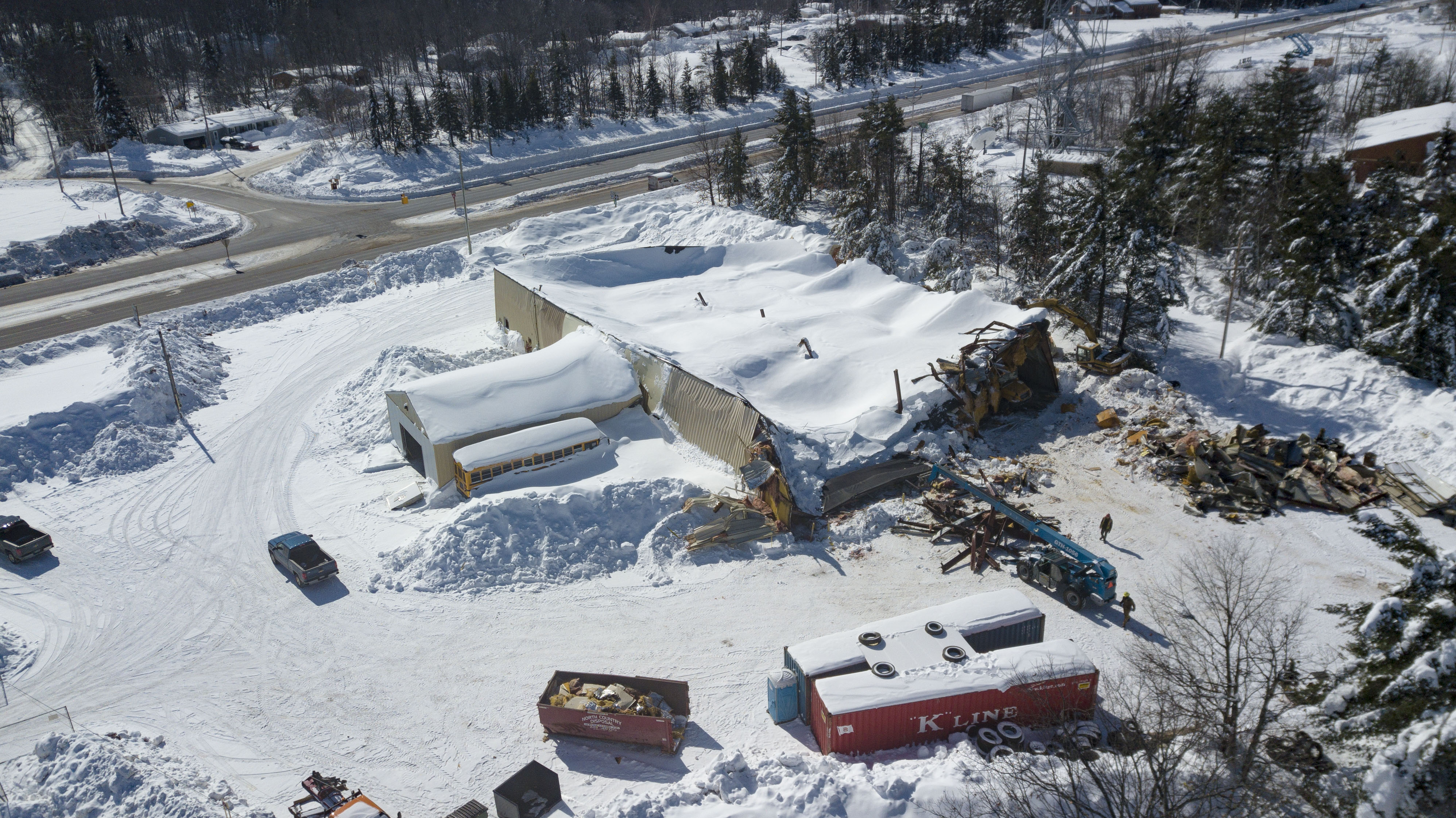 On February 24, 2019, the Negaunee School District's bus garage collapsed during a snow storm due to the weight of the snow damaging fifteen buses. Classes resumed the next school day with the help of loaner buses from other districts. The roofs failed on two additional buildings in Marquette County during the same storm.